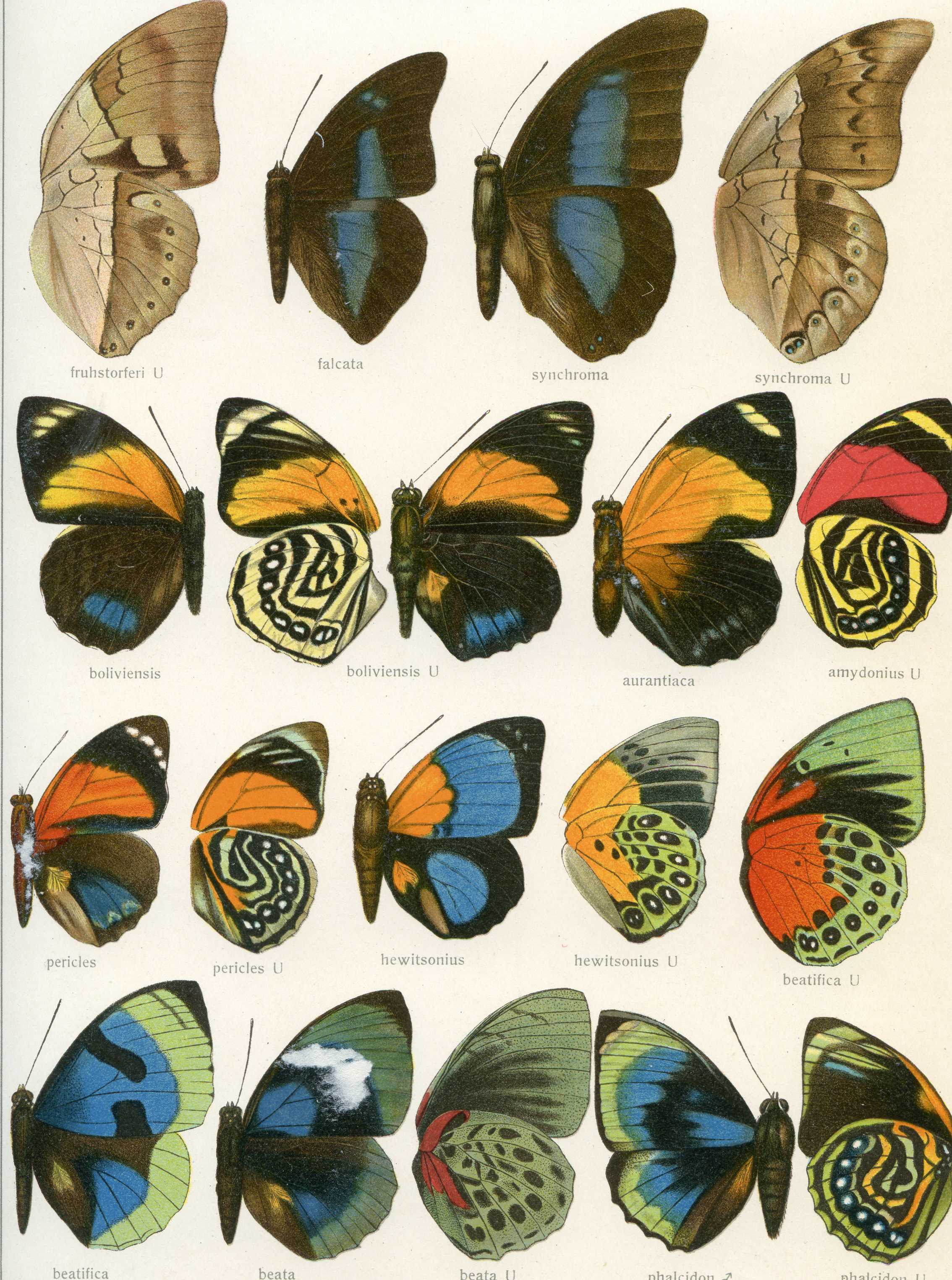 Fruhstorfer, H., 1913. Family: Morphidae. In A. Seitz (editor), Macrolepidoptera of the world, vol. 5: 333–356. Stuttgart: Alfred Kernen. Prepona fruhstorferi Röber, 1914 synonym of Archaeoprepona amphimachus (Fabricius, 1775) Prepona falcata Röber, 1914 synonym of Archaeoprepona amphimachus (Fabricius, 1775) Prepona chromus f. synchroma Staudinger, 1886 synonym of Noreppa chromus (Guérin-Ménéville, 1844) Agrias boliviensis synonym of Agrias amydon boliviensis Fruhstorfer, 1895 Agrias aurantiaca synonym of Agrias amydon aurantiaca Fruhstorfer, 1897 Agrias amydonius synonym of Agrias amydon amydonius Staudinger, [1885] Agrias pericles Bates, 1860 synonym of Agrias amydon Hewitson, [1854] Agrias hewitsonius Bates, 1860 accepted name Agrias beatifica synonym of Agrias hewitsonius beatifica Hewitson, 1869 Agrias beata Staudinger, [1885] synonym of Agrias hewitsonius beata Staudinger, [1885] Agrias phalcidon Hewitson, 1855 synonym of Agrias amydon phalcidon Hewitson, 1855